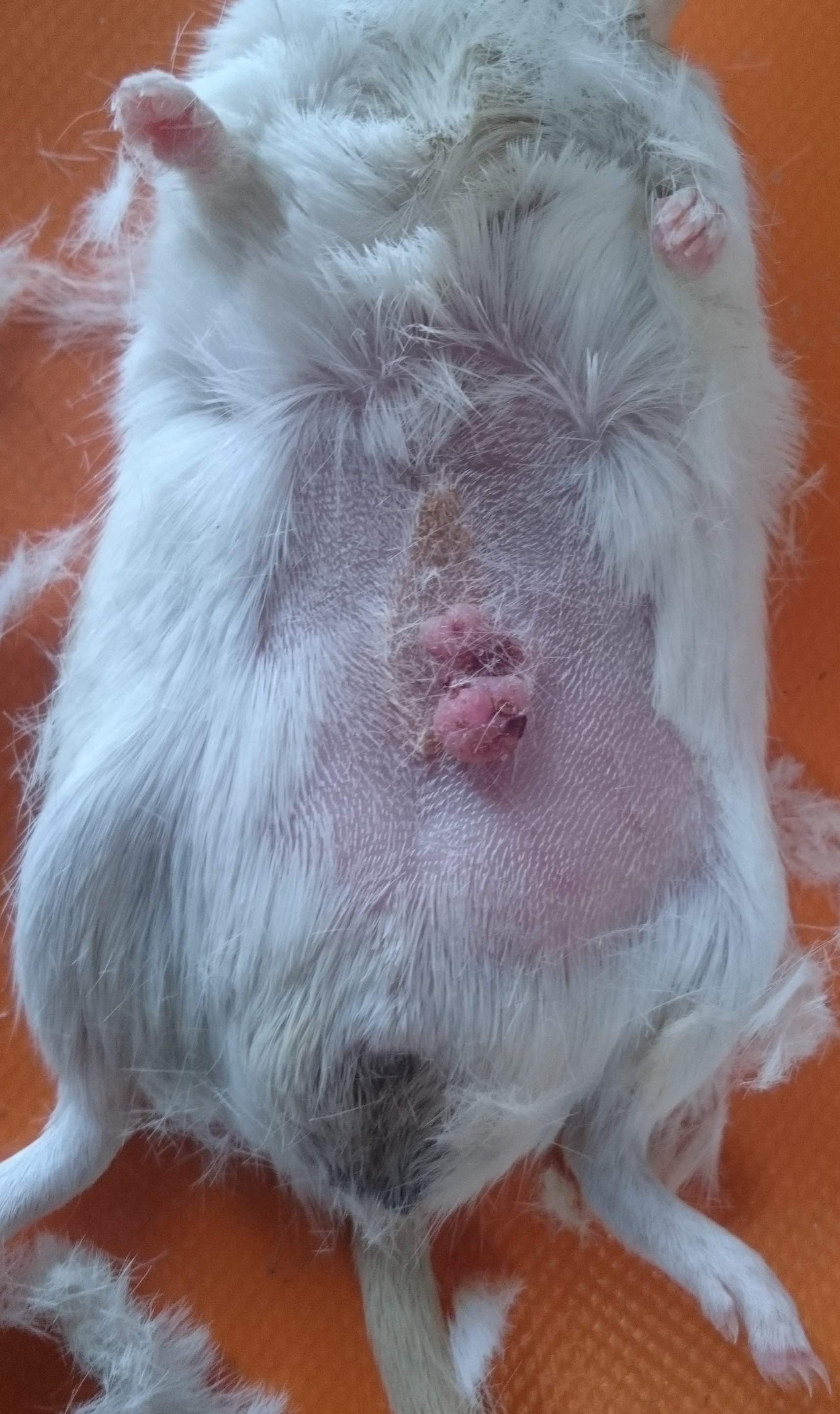 umbilical gland in a Mongolian gerbil with an adenoma